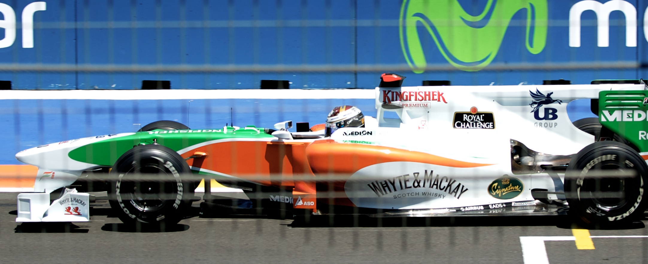 Adrian Sutil driving for Force India at the 2010 European Grand Prix.